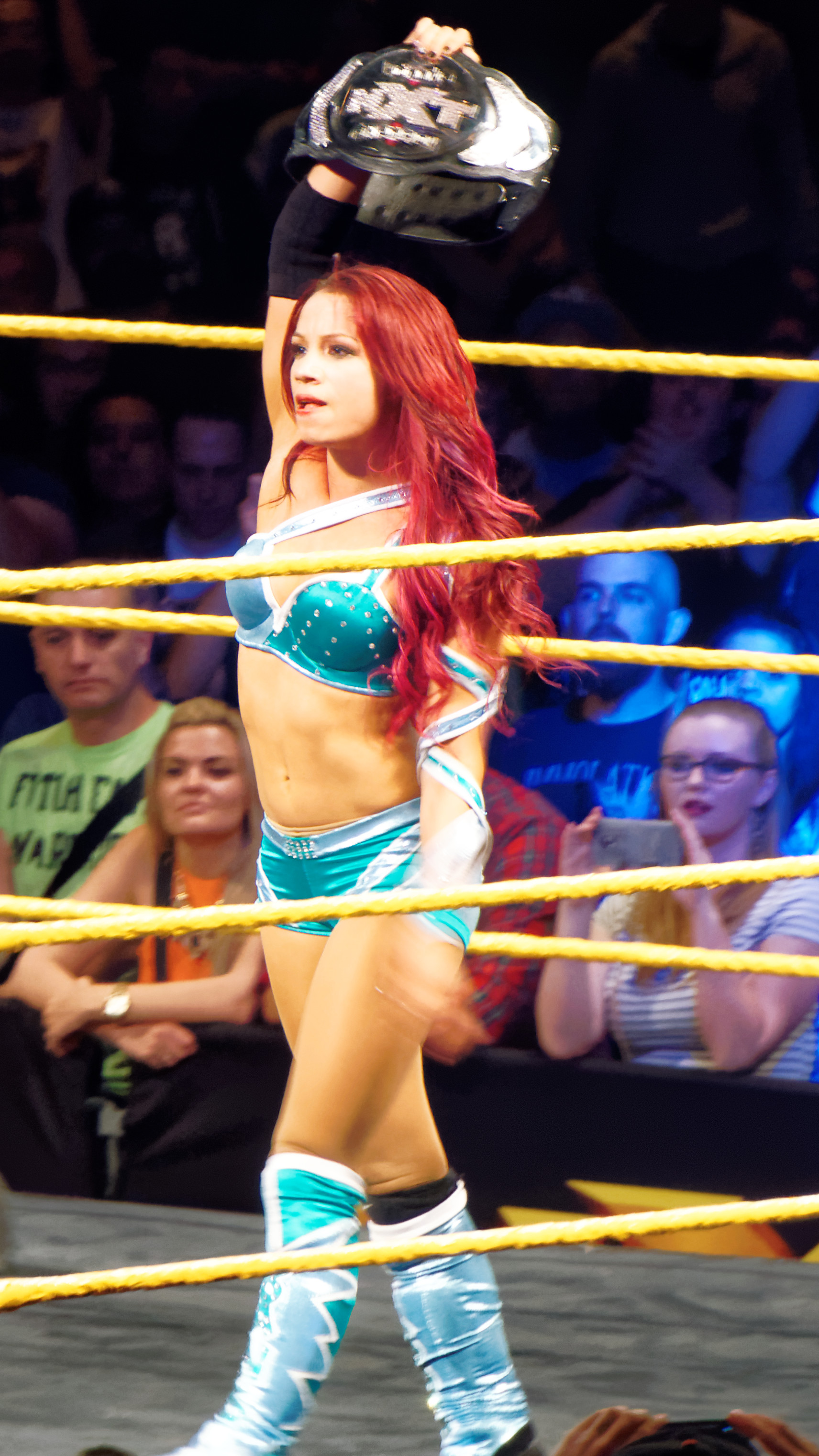 Sasha Banks with the NXT Women's Championship, at WWE's WrestleMania 31 Axxess on March 28, 2015